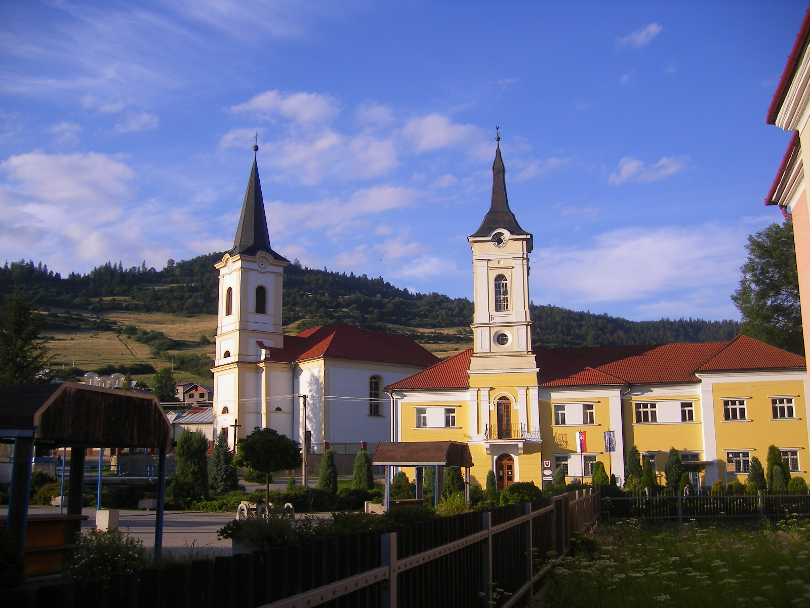 Nálepkovo - catholic church and town hall